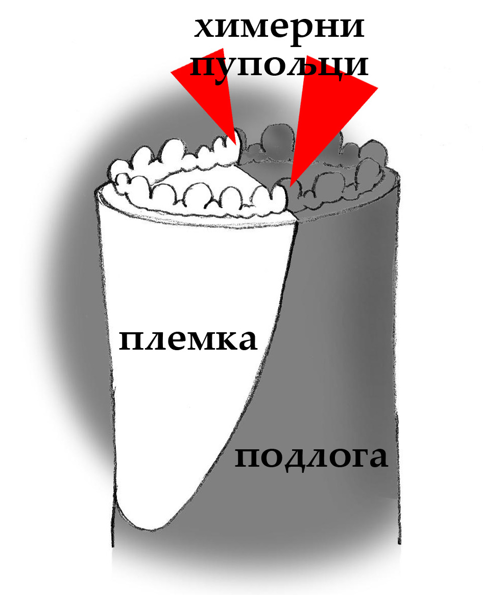 Scheme of chimeric buds formation.